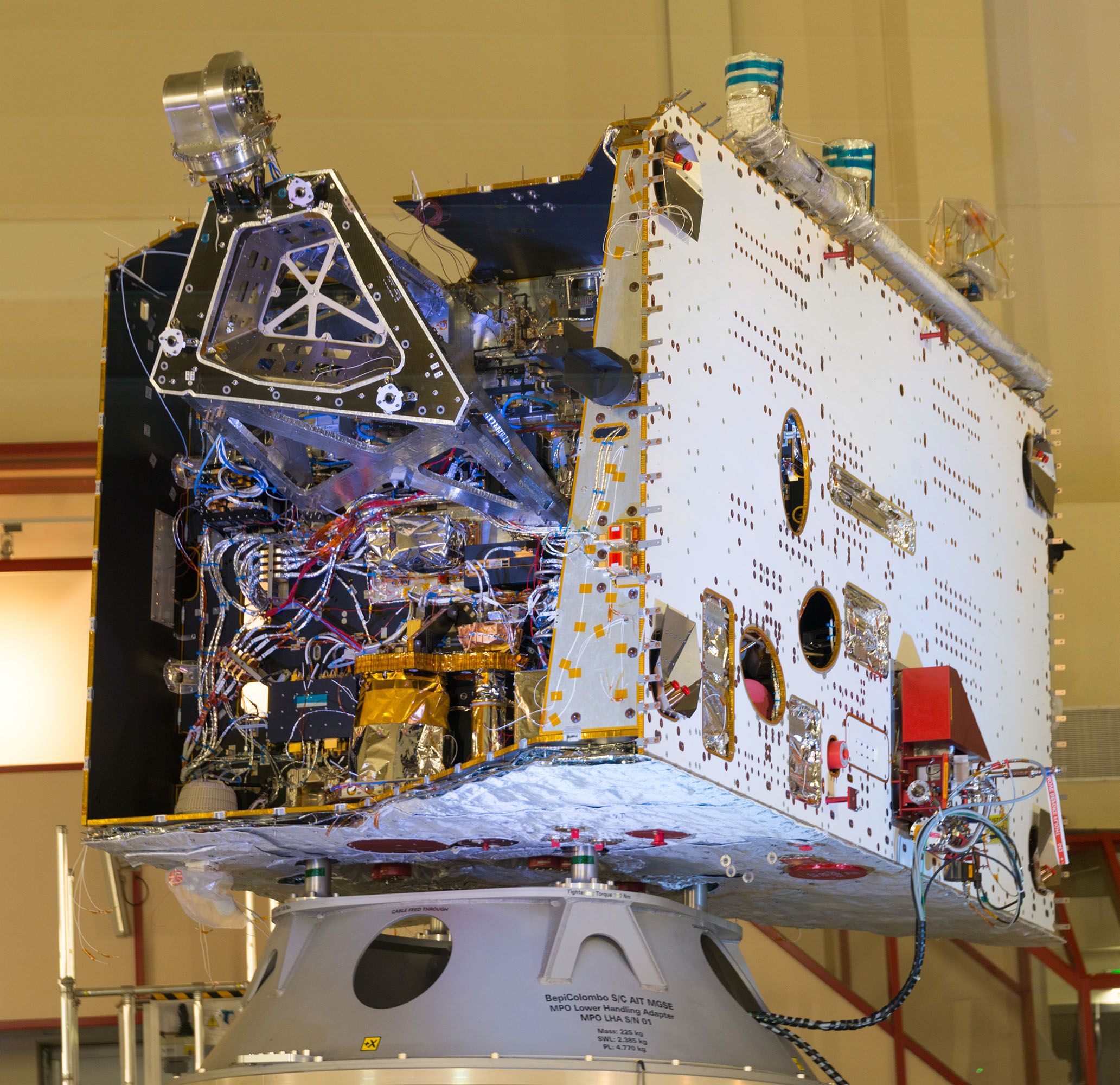 BepiColombo Mercury Planetary Orbiter in ESTEC, before launch.